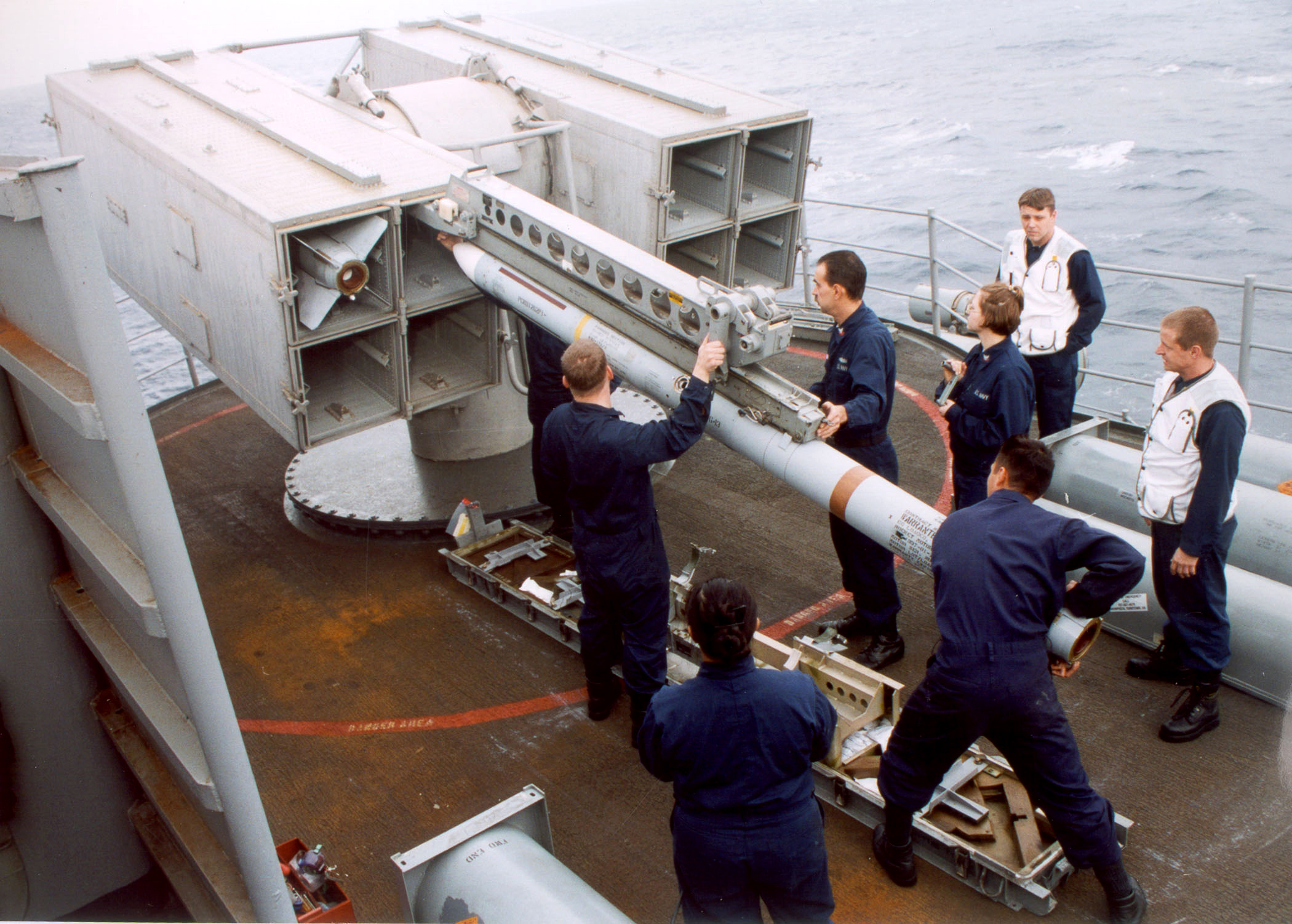 Aboard the USS John F. Kennedy, a Mk 29 is being loaded